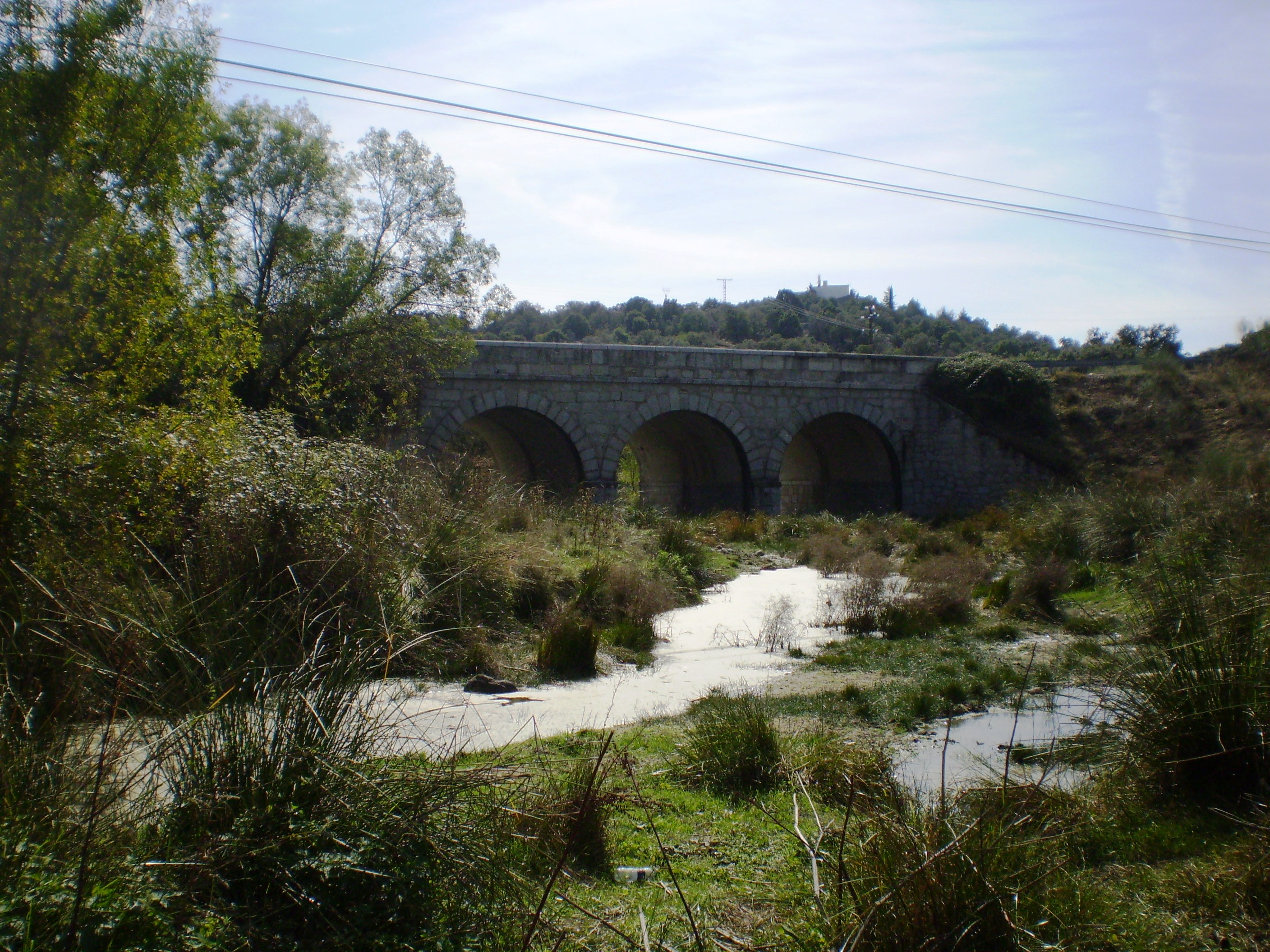 Perales River (Navalagamella, Community of Madrid, Spain)